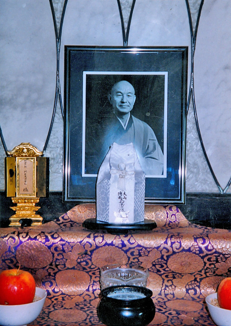 Roshi's ashes are on the altar in the kaisando, or Founders' Room